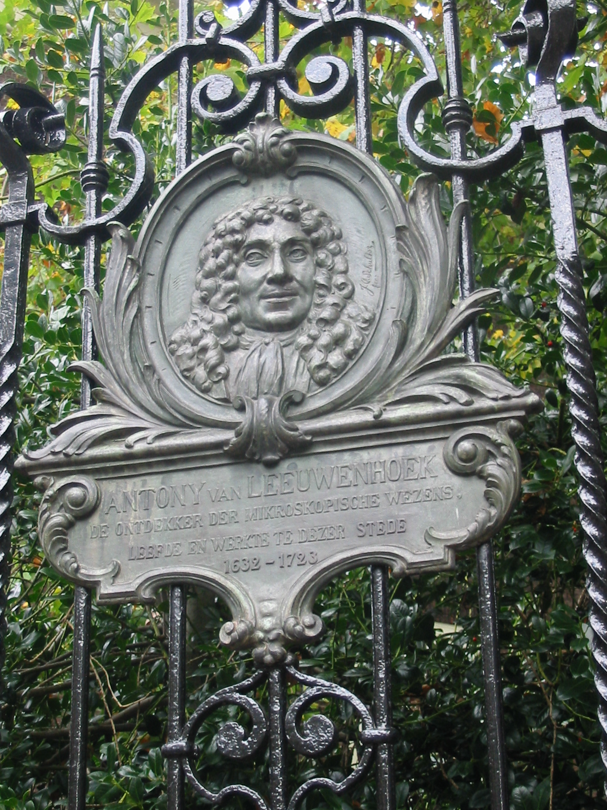 Plaque with information about Antony van Leeuwenhoek, mounted on a fence on the corner of Oude Delft and Boterbrug, in Delft. Picture taken with Elly's old camera. --Johjak 16:35, 31 October 2006 (UTC) The text reads: "Antony van Leeuwenhoek, the founder of microscopic beeings, lived and worked in this city, 1632-1723" (Written in old Dutch)